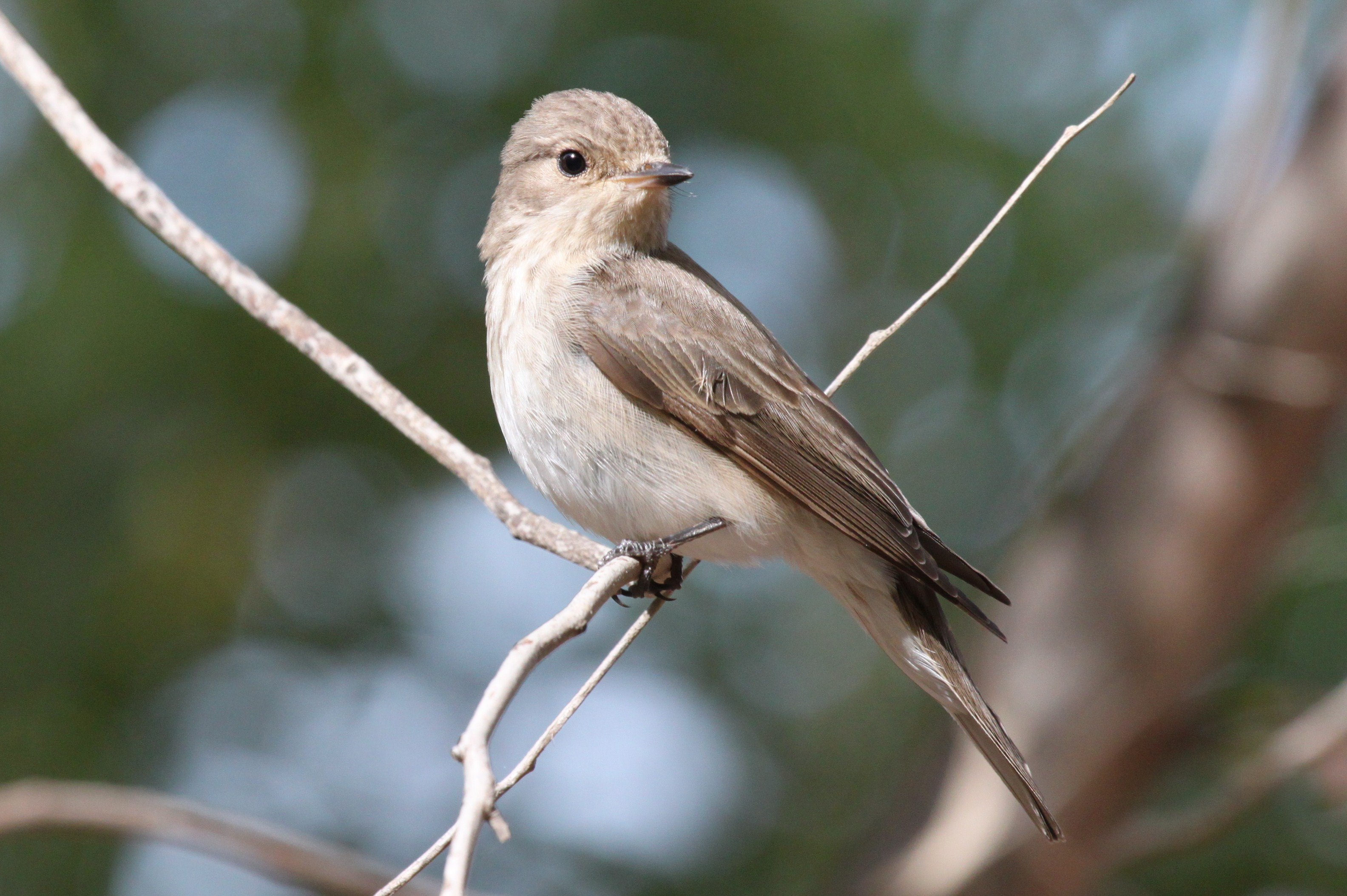 Mediterranean Flycatcher Muscicapa tyrrhenica. Saw lots of these in Sardinia last week.